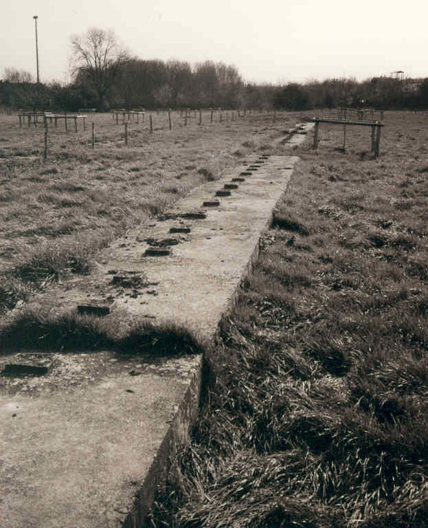 Tank obstacle of the siegfried line near Geilenkirchen in Germany